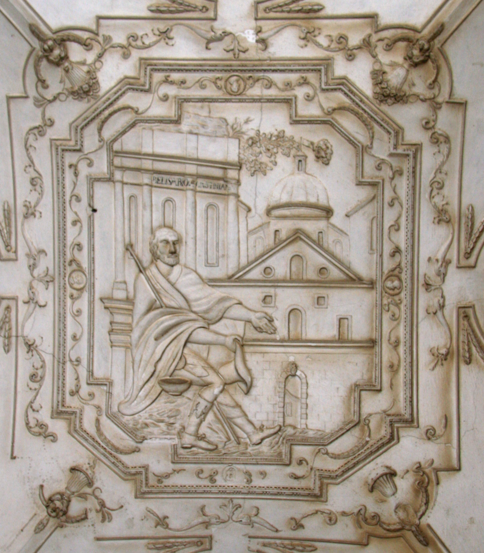 Decorative plasterwork in the arcway of the Palazzo Beneventano del Bosco, Siracusa, built in 1779. A reminder of the fate of any general who gets to powerful, perhaps? Flavius Belisarius (505(?) – 565) was one of the greatest generals of the Byzantine Empire and one of the most acclaimed generals in history. He was instrumental to Emperor Justinian I's ambitious project of reconquering much of the Western Roman Empire, which had been lost just under a century previously. "According to a story that gained popularity during the Middle Ages, Justinian is said to have ordered Belisarius' eyes to be put out, and reduced him to the status of homeless beggar condemned to asking passers-by to "give an obolus to Belisarius" (date obolum Belisario), before pardoning him. Most modern scholars believe the story to be apocryphal, though Philip Stanhope, a 19th century British philologist who wrote Life of Belisarius — the only exhaustive biography of the great general — believed the story to be true. Based on a thorough parsing of the available primary sources, Stanhope created a noteworthy, if not wholly convincing argument for the legend's authenticity." see Belisarius plastered